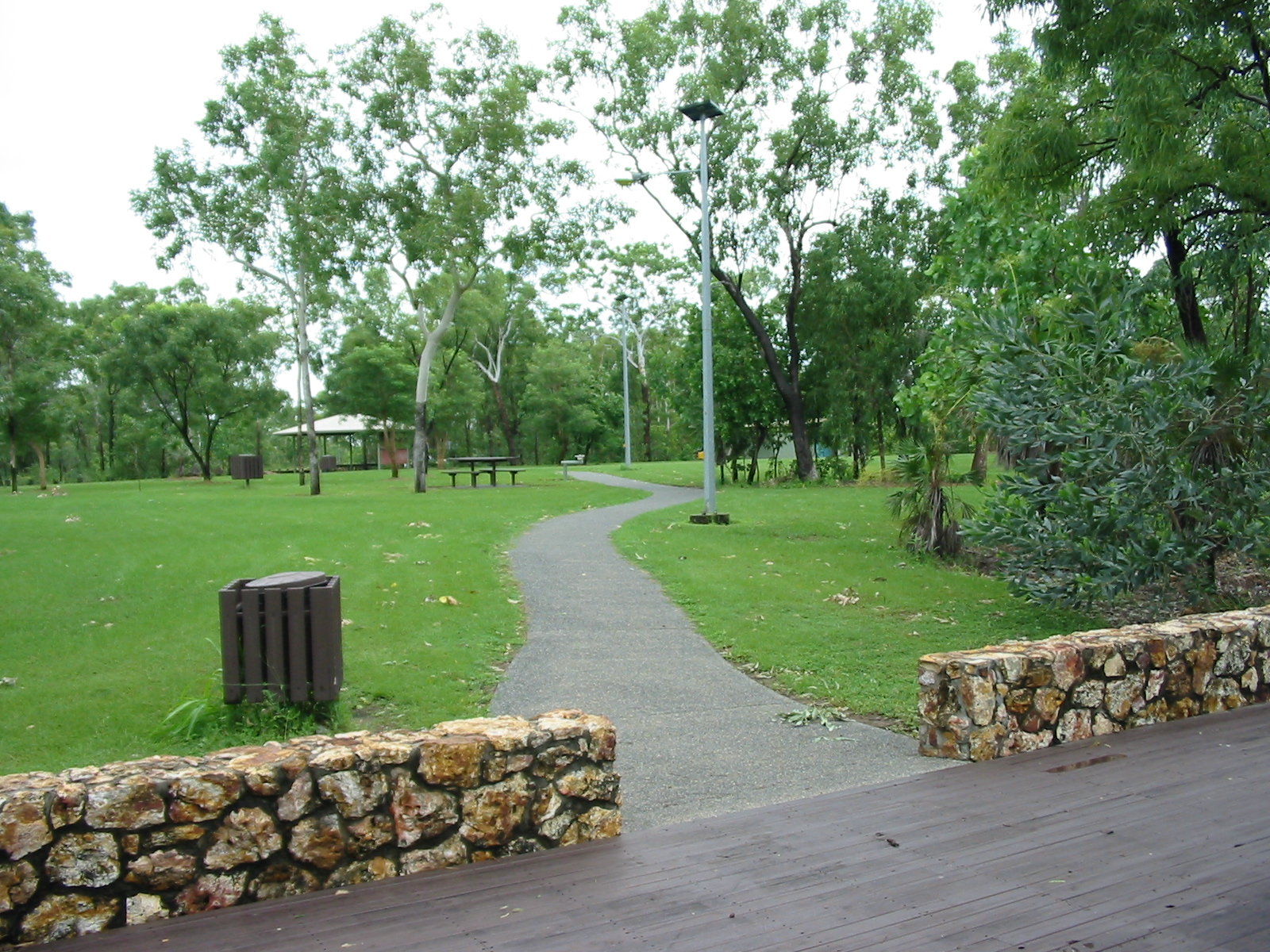 Looking back into Charles Darwin National Park from the observation deck. This park has been developed on the site of the WWII Bombing Road bomb dump.